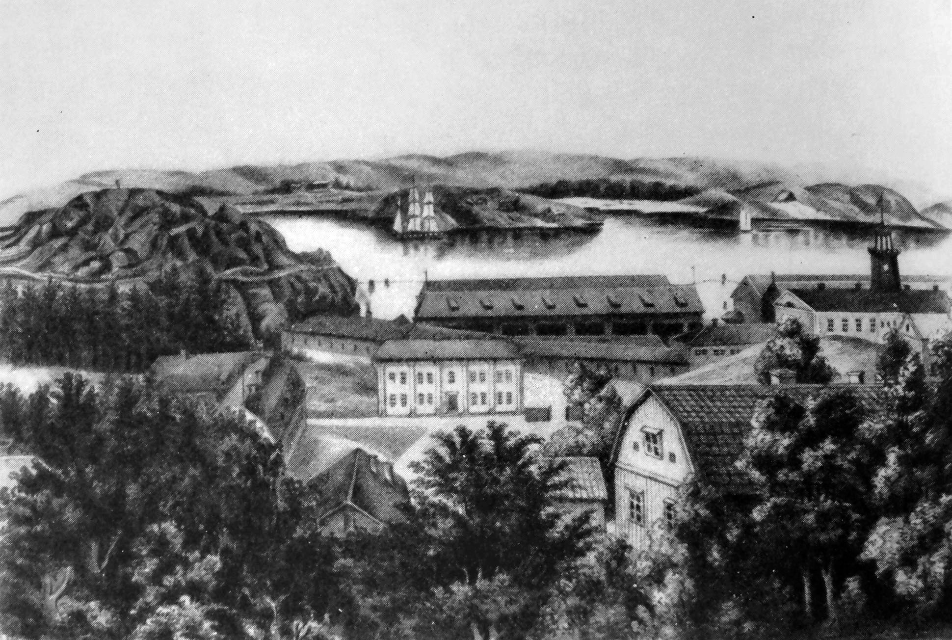 Pencildrawing of Swedish navalbase Nya Varvet, Gothenburg, around 1850.